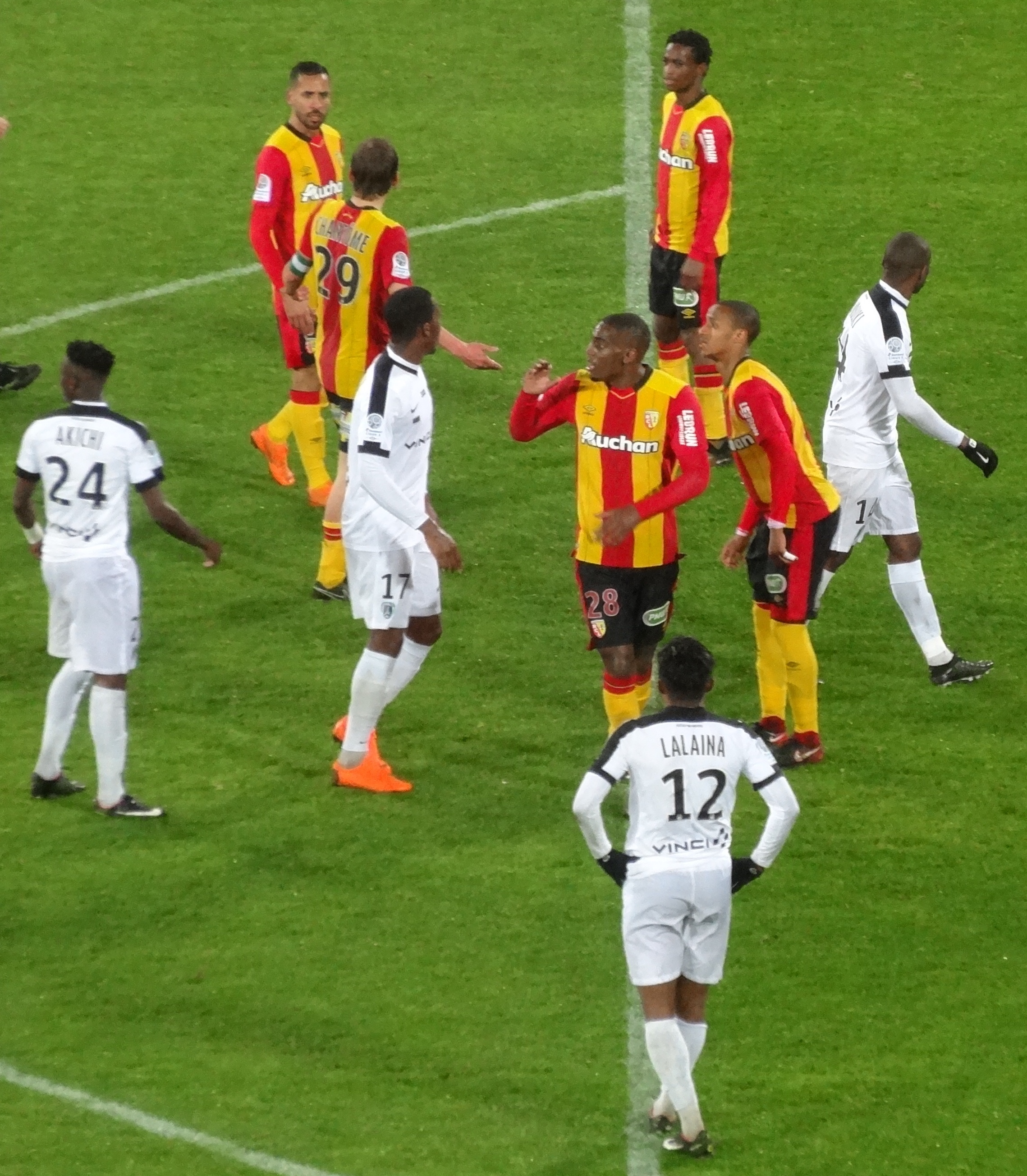 Lalaina Nomenjanahary vs Lens